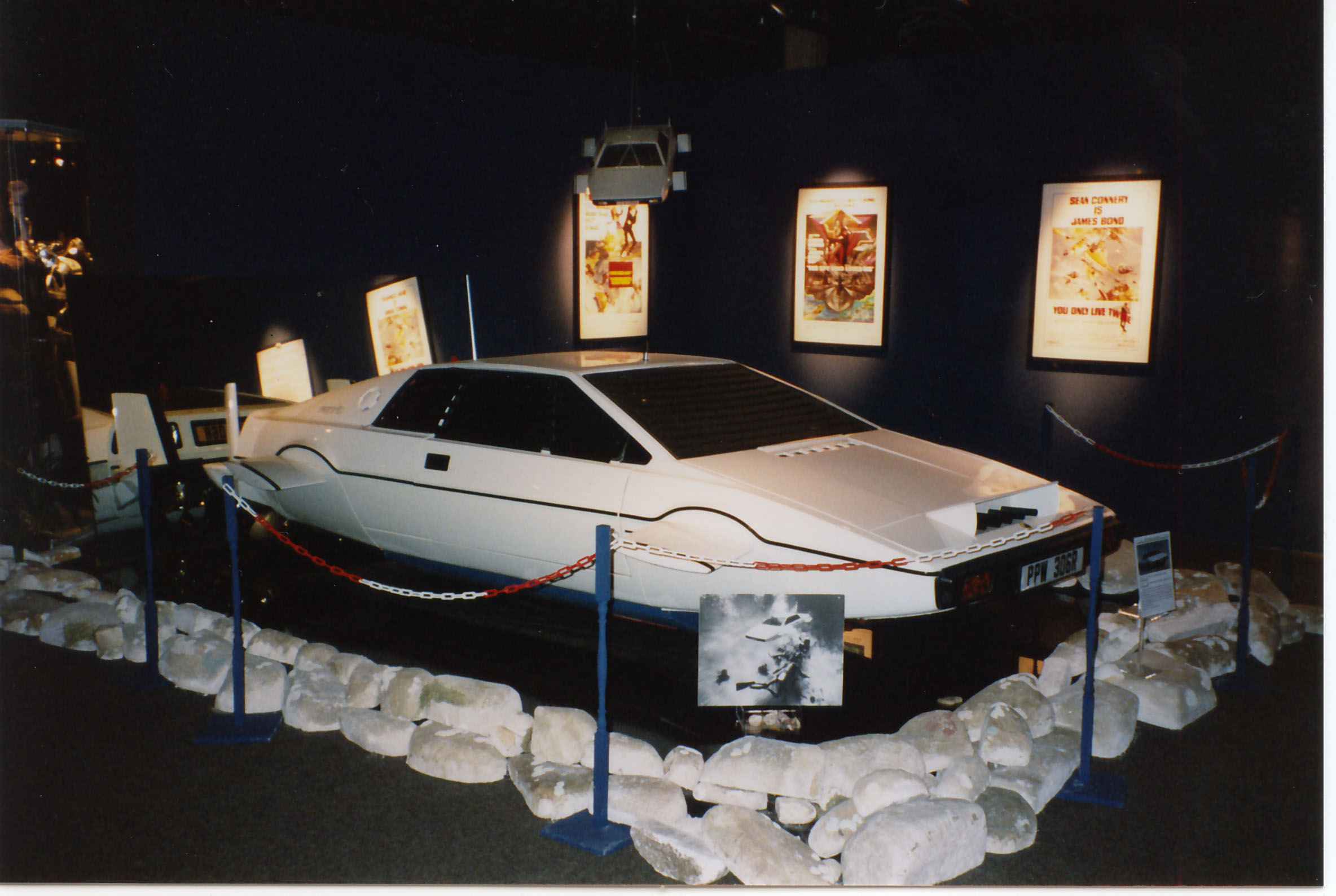 Lotus Esprit from James Bond Movie "The Spy Who Loved Me",1977 at a 1998 exhibition.